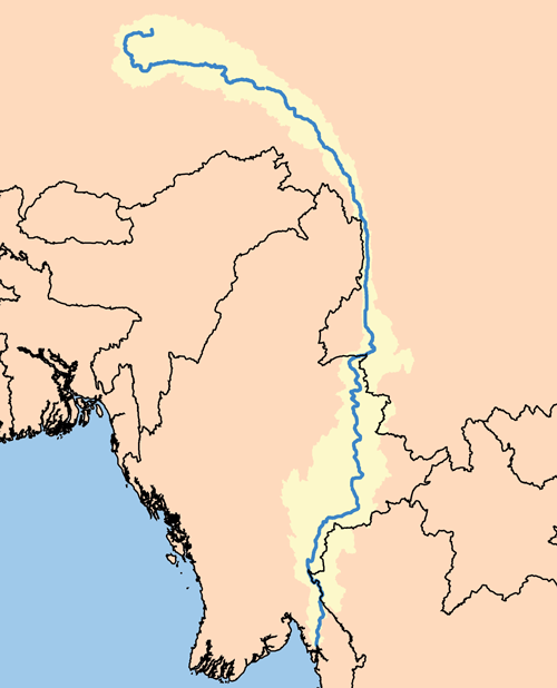 This is a map of the Salween River Watershed. I, Karl Musser, created it based on USGS data.